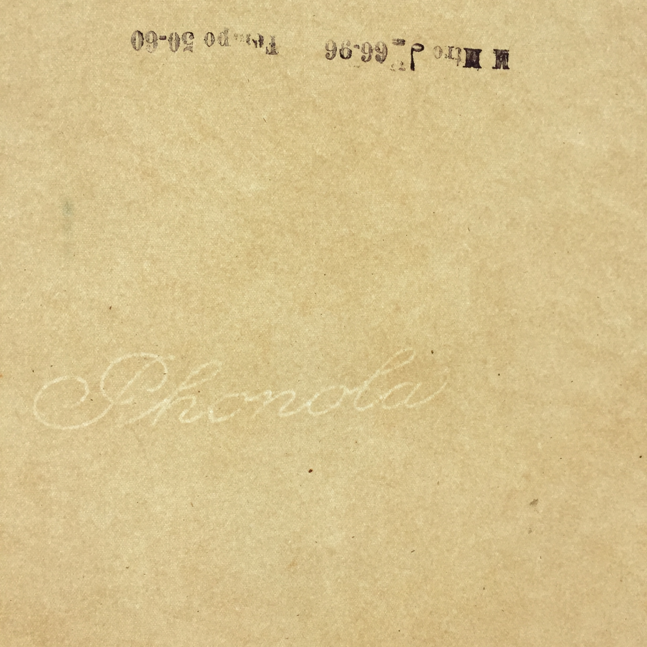 Watermark in a Hupfeld's piano roll